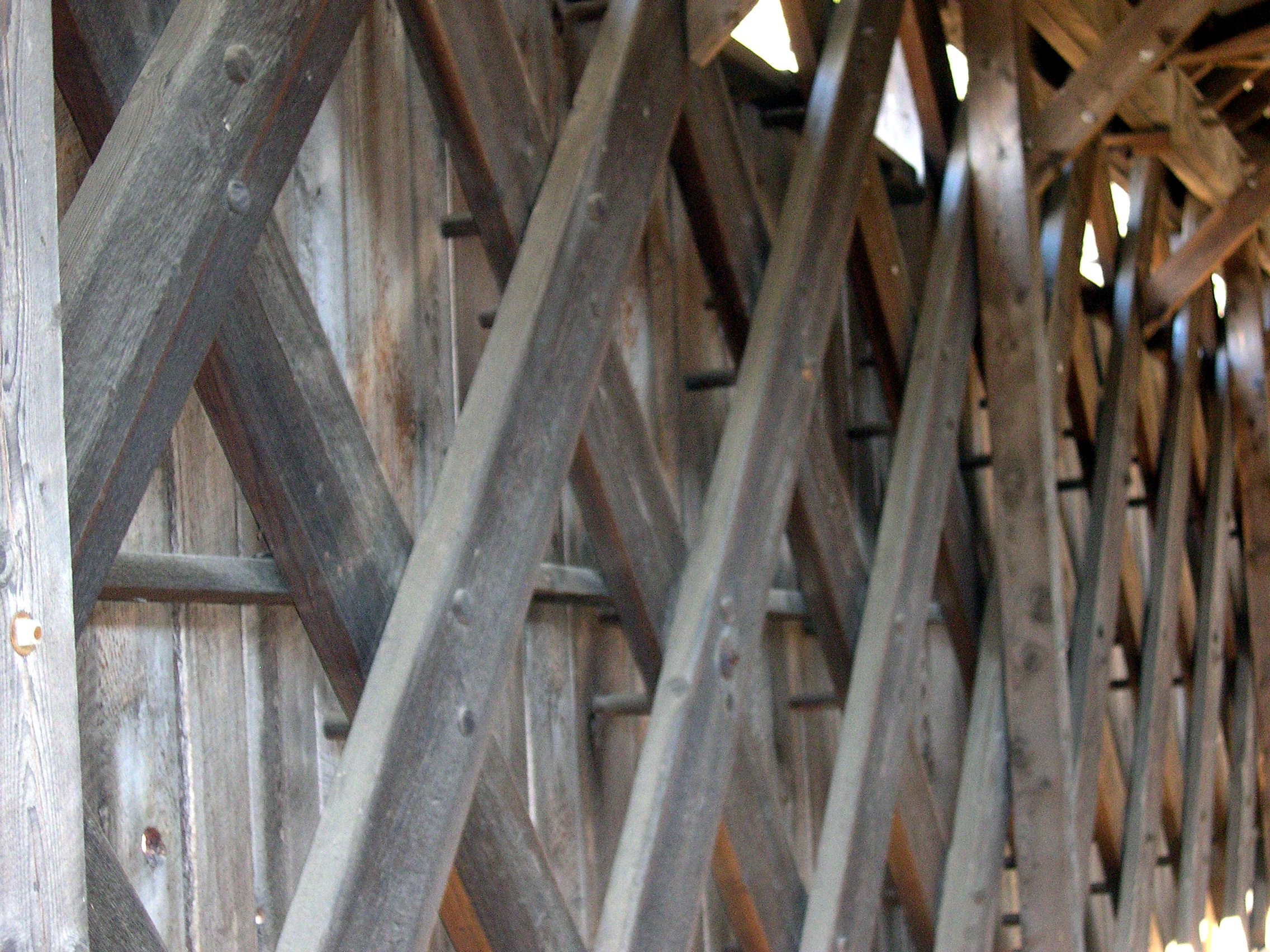 Worrall Covered Bridge, Rockingham, Vermont